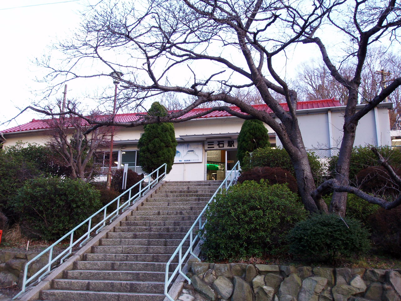 West Japan Railway Sanyo Main Line Mitsuishi Station Building 西日本旅客鉄道 山陽本線 三石駅 駅舎